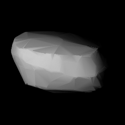 3D convex shape model of 2100 Ra-Shalom, computed using light curve inversion techniques. J. Hanuš, J. Ďurech, M. Brož, B. D. Warner (June 2011). "A study of asteroid pole-latitude distribution based on an extended set of shape models derived by the lightcurve inversion method". Astronomy and Astrophysics 530: A134. ISSN 0004-6361. arXiv